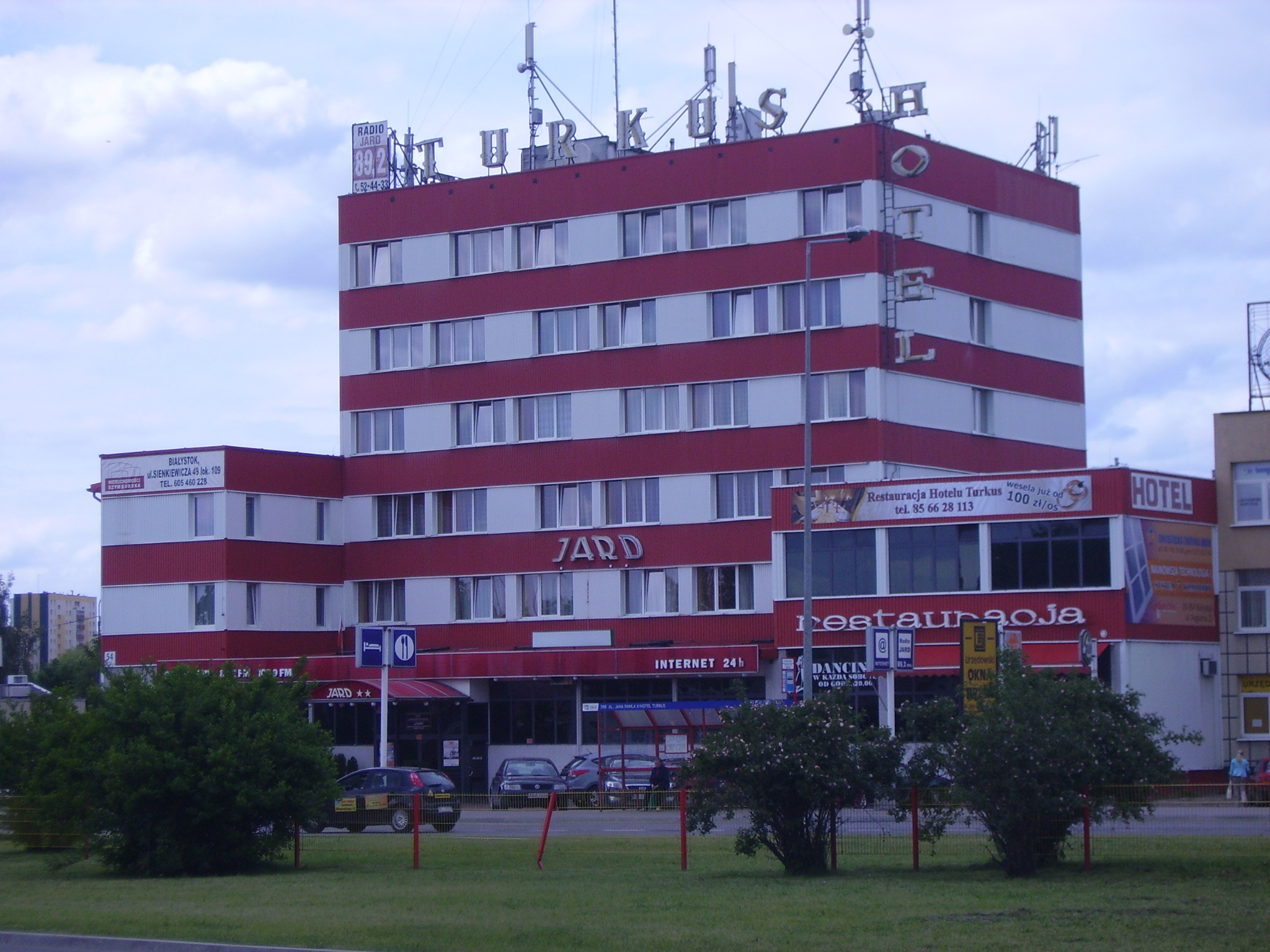 Hotel Turkus in Białystok at 54 Jana Pawła II Street.